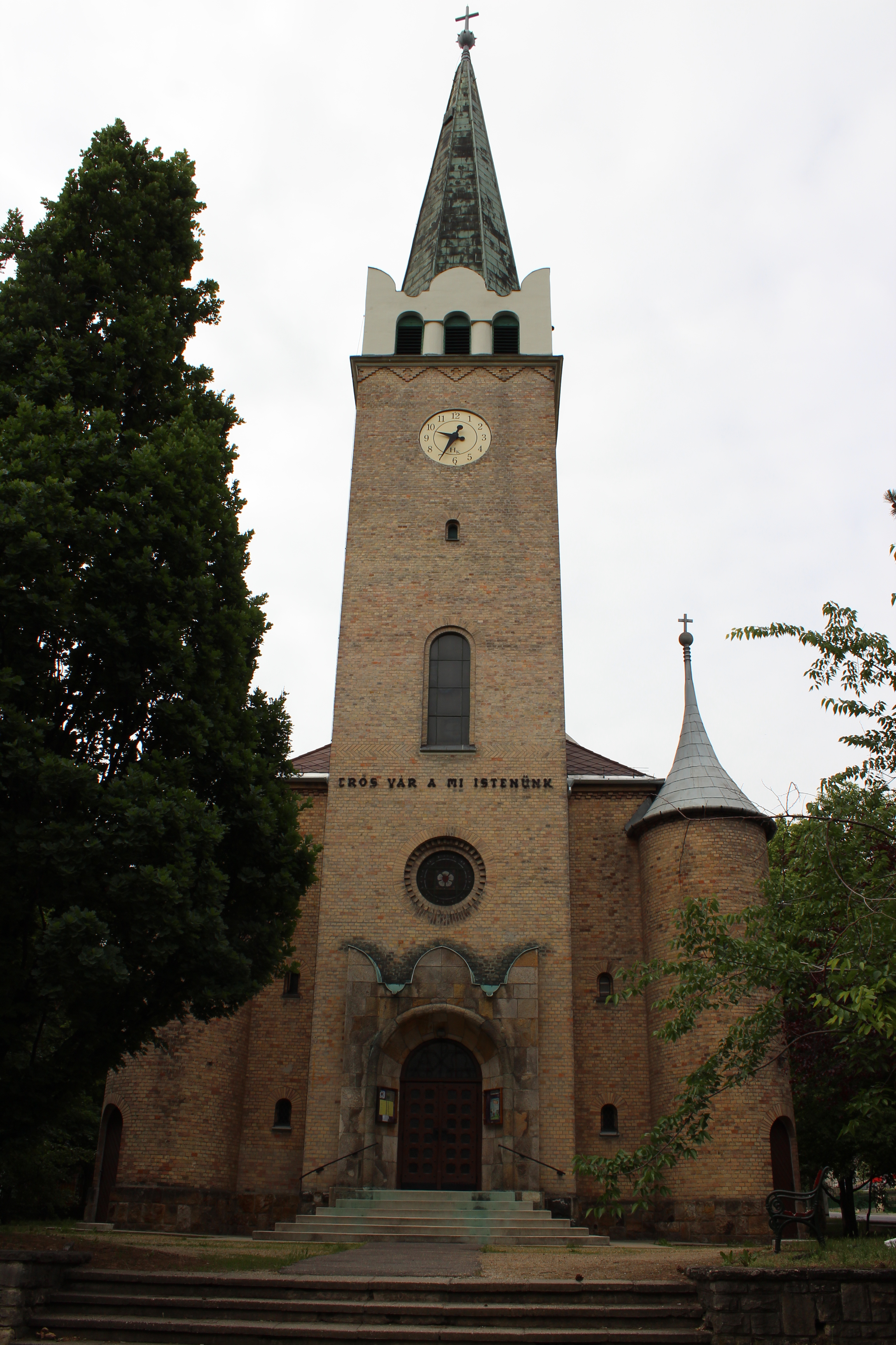 Lutheran church in Rákoskeresztúr